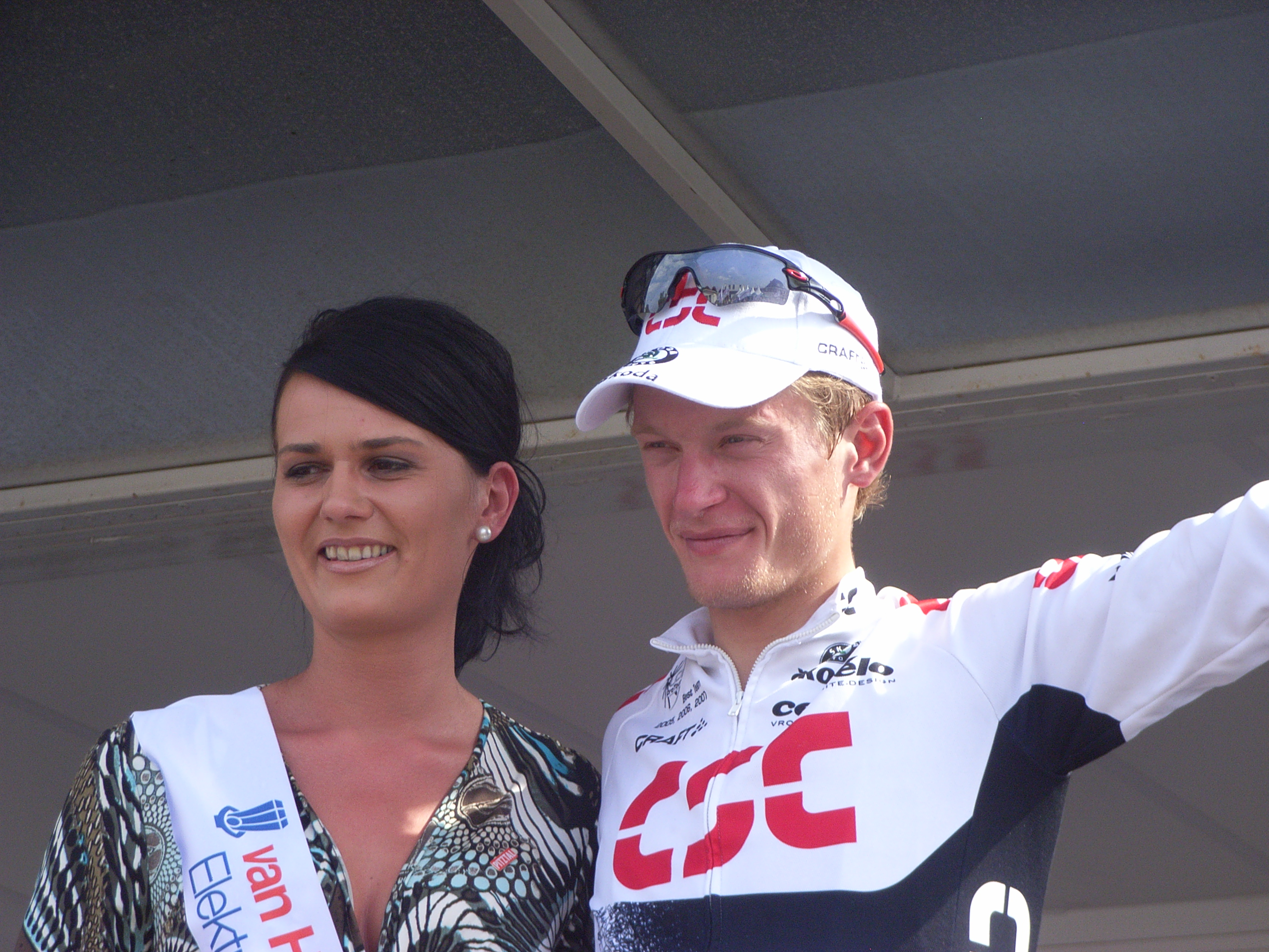 Cyclist Matti Breschel wins the 1st stage in the Ster Electro Tour in Valkenburg